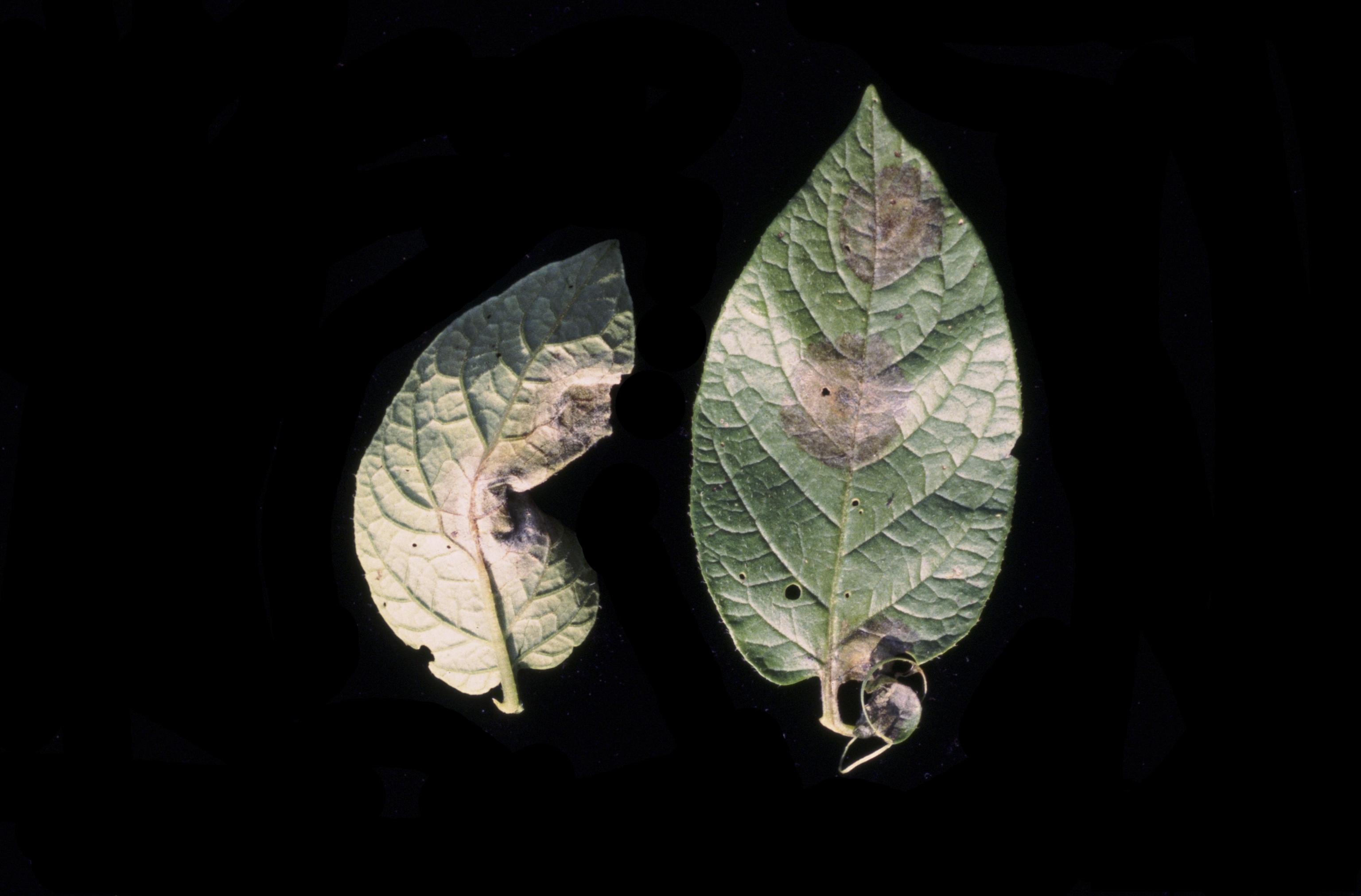 Symptoms of Phytophthora infestans (late blight) on potato leaf